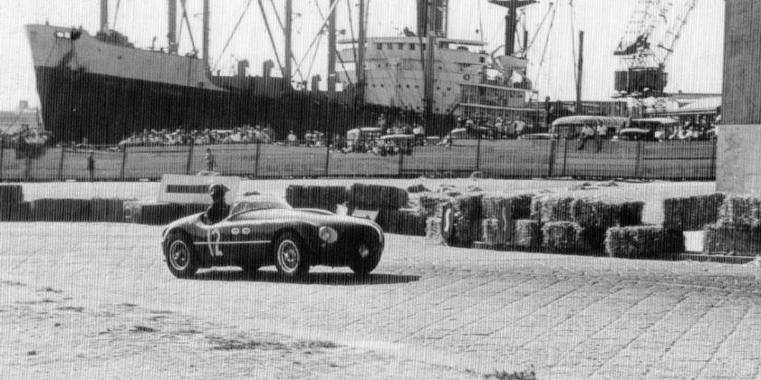 Entry #12 and 8th place overall at 10 ore Messina race (Italia) on 26 July 1953,[1] is the 1953 Ferrari 166 MM Vignale Spider s/n 0278M